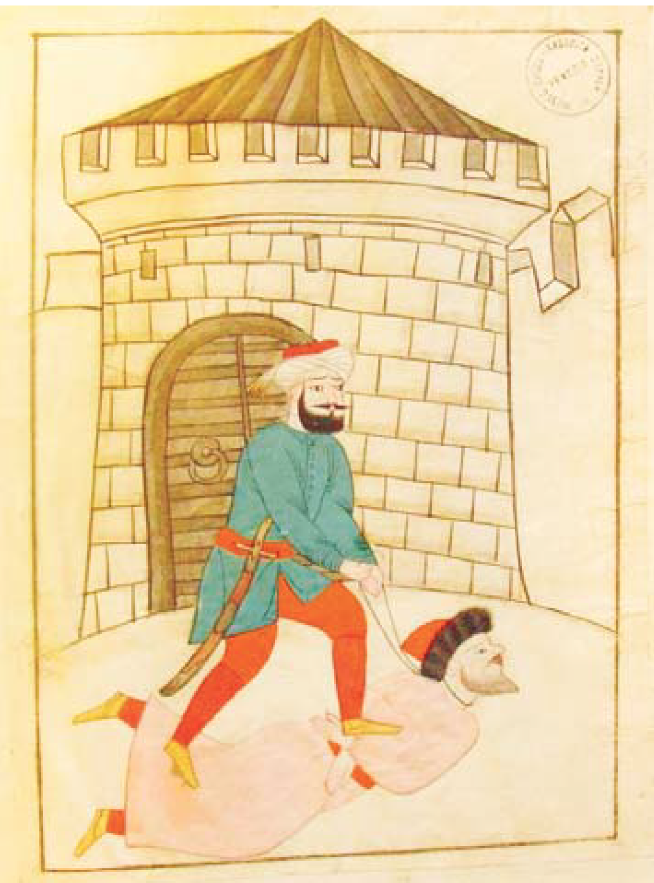 Grand Dragoman Grillo Strangled by Order of the Grand Vizier. MCC, Cod. Cicogna 1971, fol. 38r